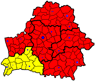 Map of Oblast Brest in Belarus with district-level subdivisions